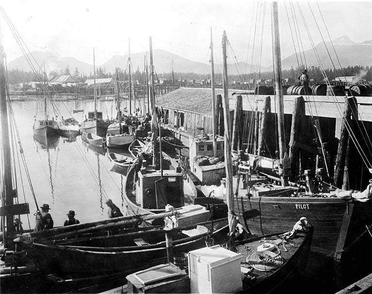 On verso of image: Fleet of power fishing vessels at Petersburg, Alaska . In Folder 27 Subjects (LCTGM): Fishing boats--Alaska--Petersburg; Waterfronts--Alaska--Petersburg Subjects (LCSH): Petersburg (Alaska)